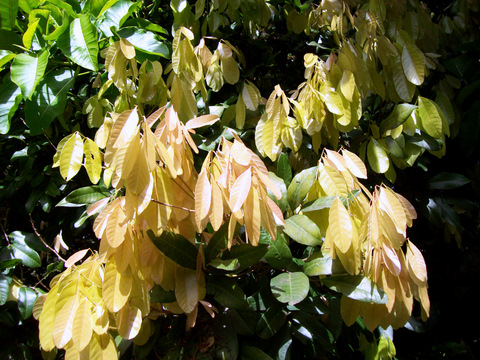 Arytera divaricata, RBG Sydney